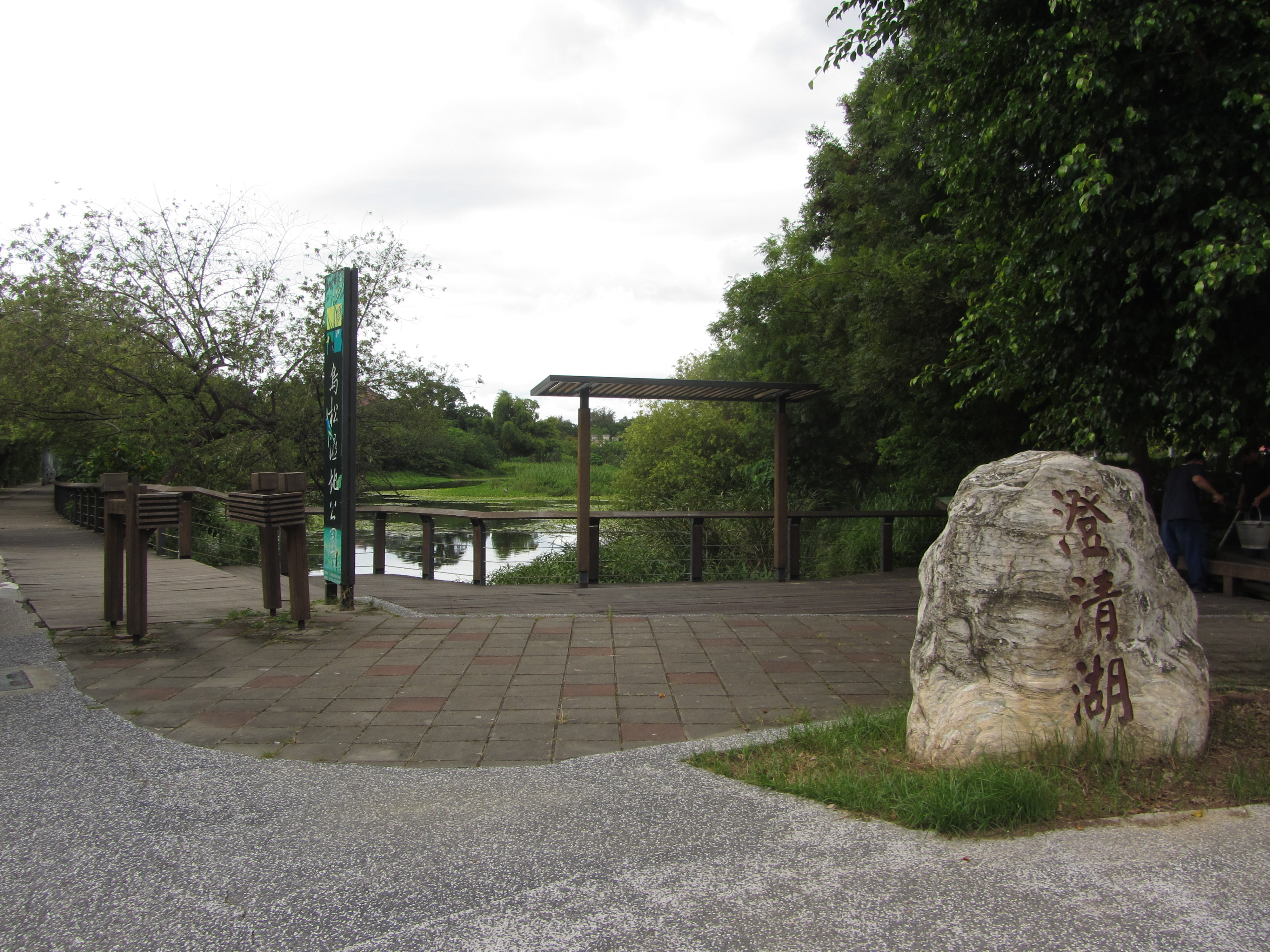 Niaosong Wetland Park